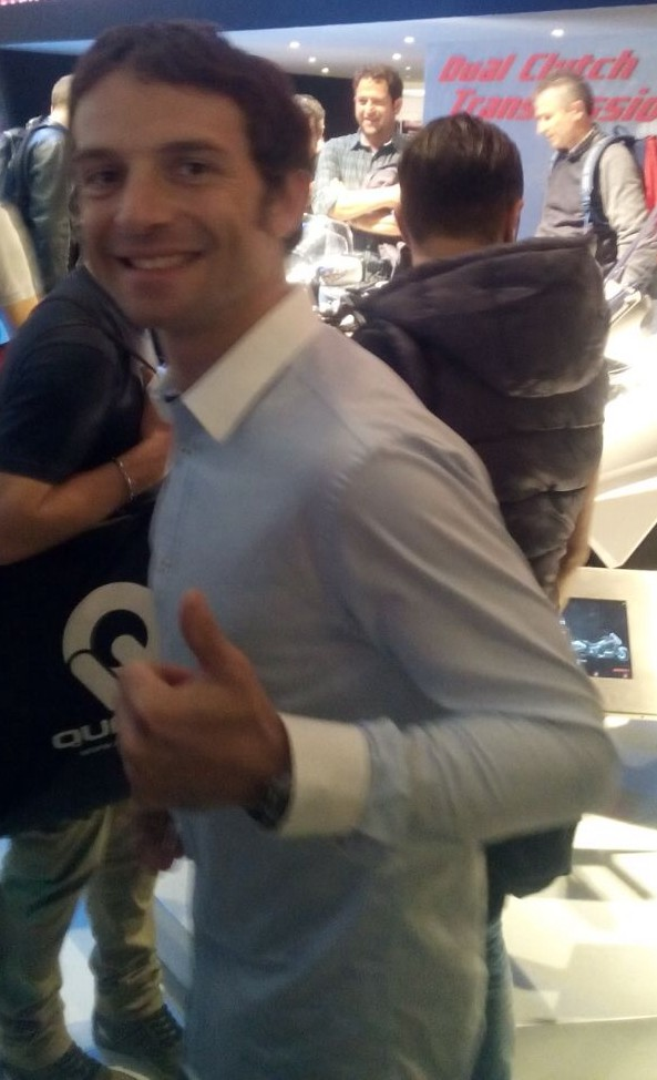 Sylvain Guintoli at EICMA 2014